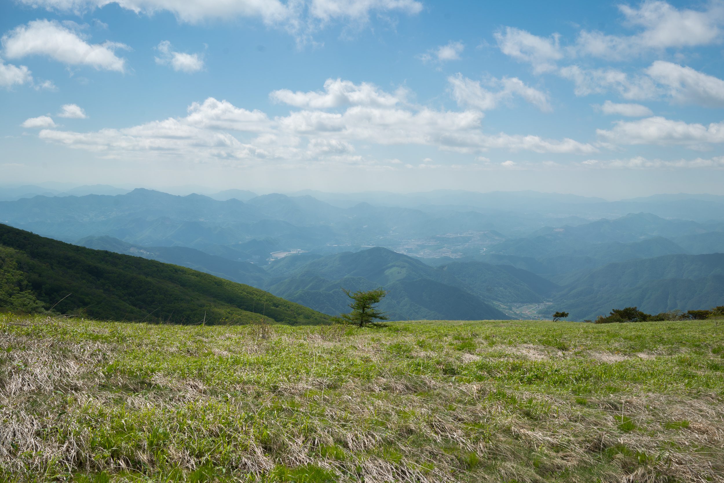 This tree resides on top of Mountain Sobaek in Danyang